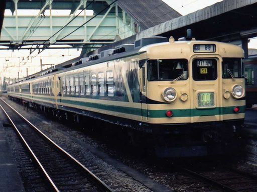 JR East 165 series Joyful Train EMU "Nanohana" at Shinmachi Station